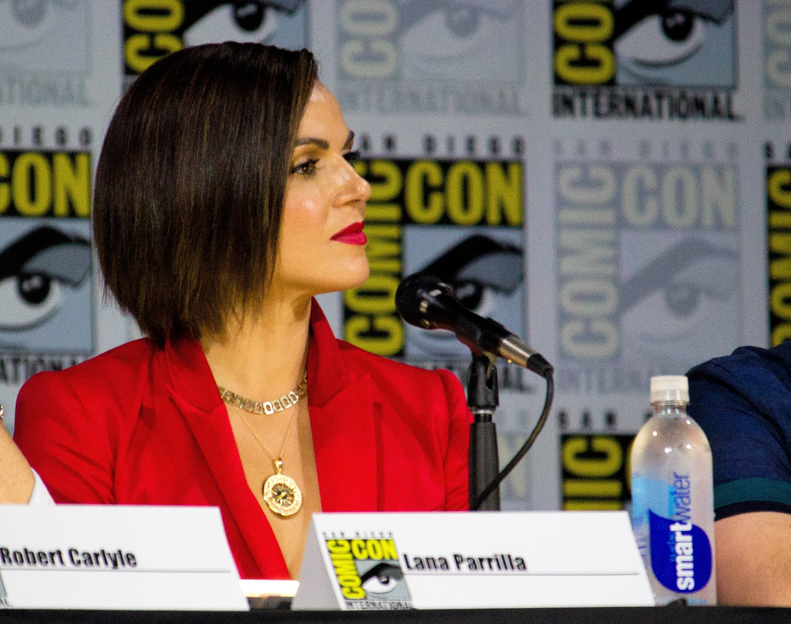 Lana Parrilla San Diego ComicCon 2017